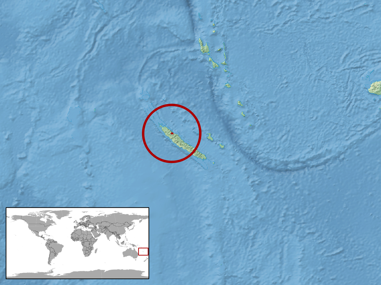 geographic distribution of Nannoscincus exos